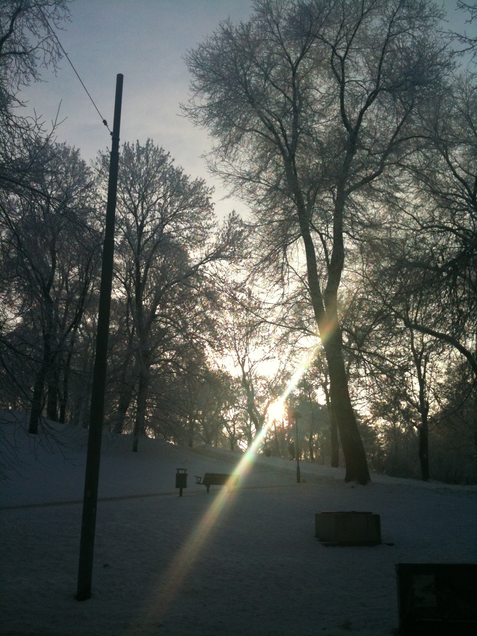 Kronobergsparken in winter